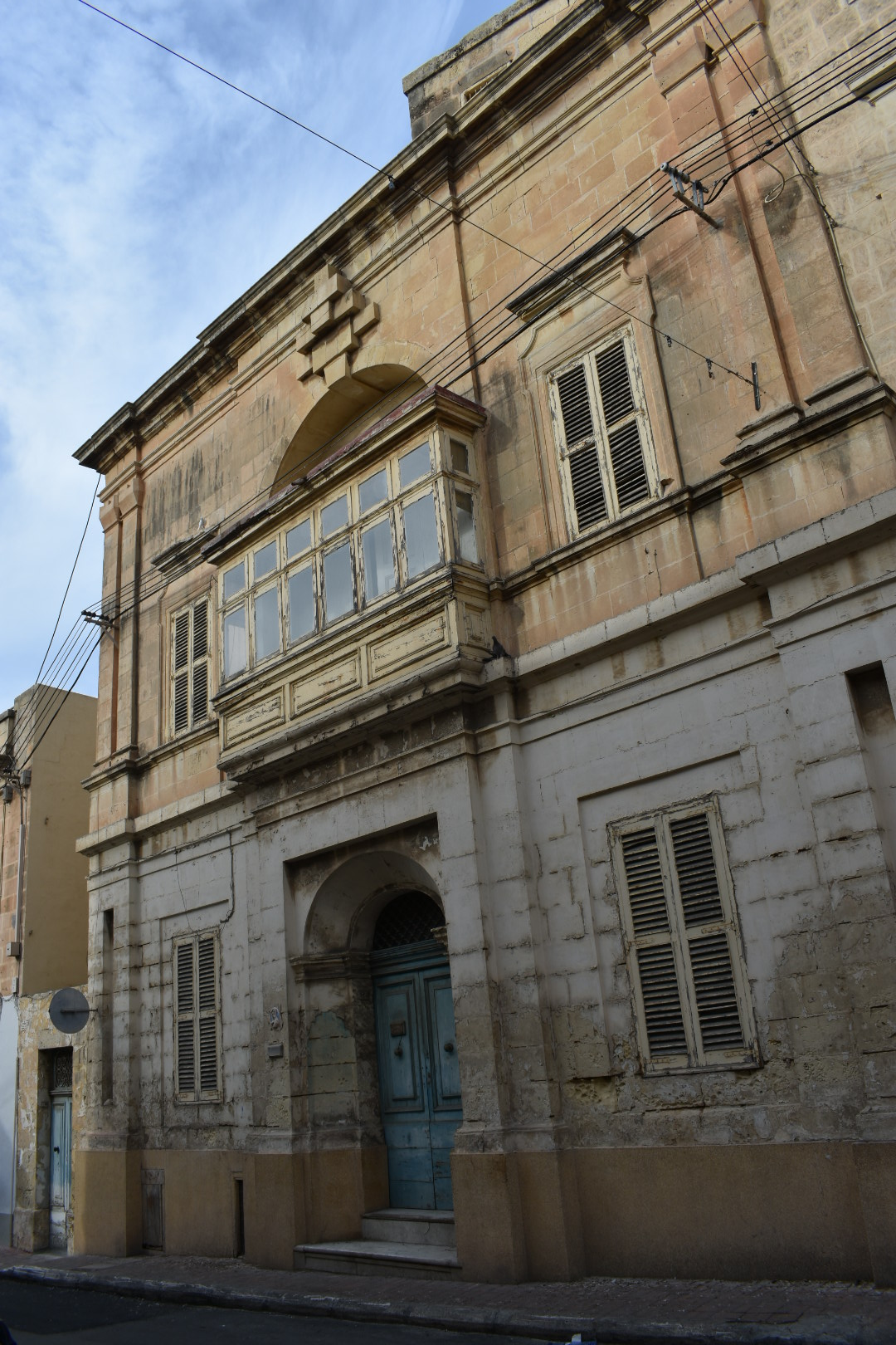 Residence of Vincenzo Borg, known as Brared. It is a townhouse in Birkirkara, Malta, design by the architect Francesco Sammut. The building served as a hospital during the French occupation of Malta and probably even for some later years. Its enormous garden were demolished to built the St Helen's Basilica. It is a scheduled property and currently in a dilapidated state. (11 March 2012). "200-year-old History in an old musty archive". The Malta Independent. Archived from the original on 4 March 2016.